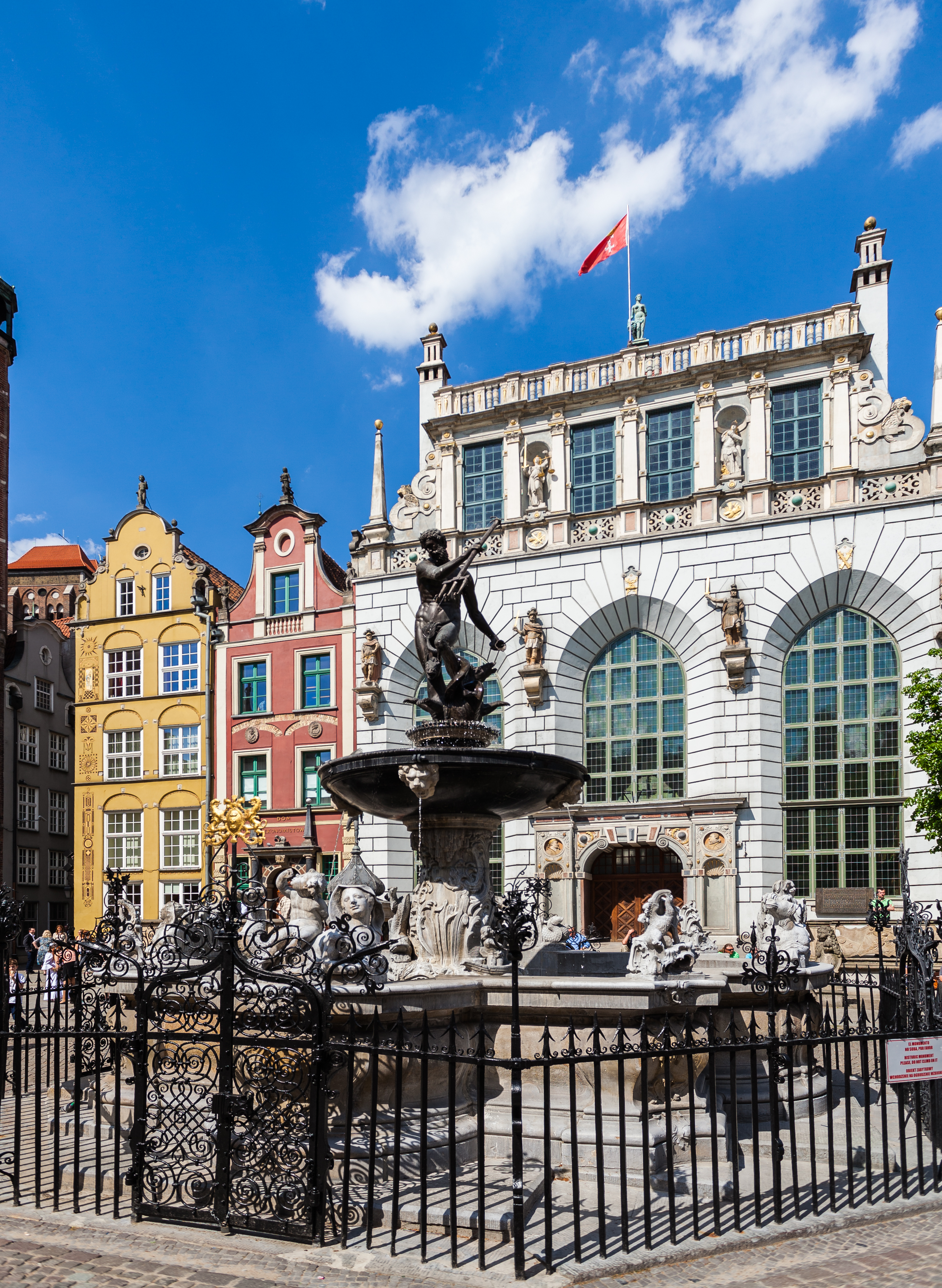 Neptune Monument, Gdansk, Poland